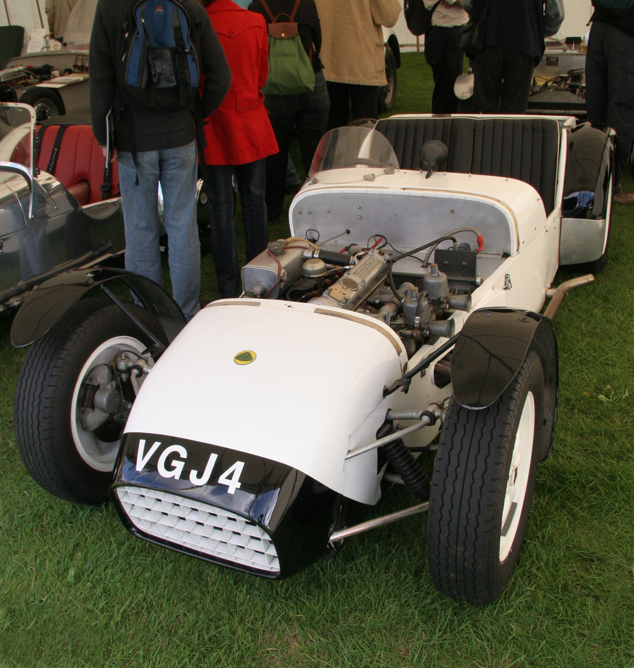 Didn't note the year...Early 7